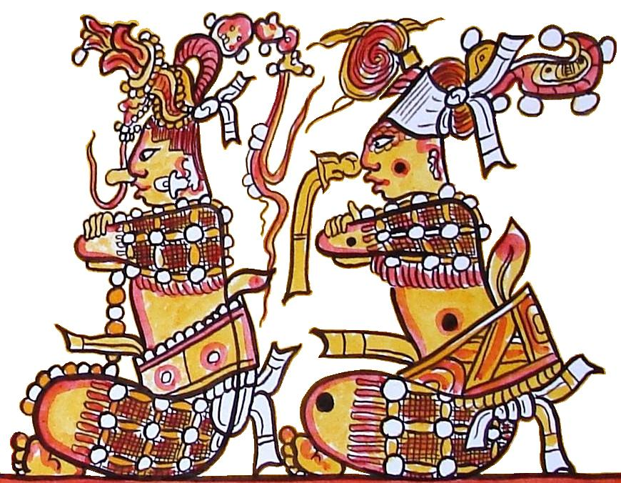 This image shows the Maya Hero Twins, known from the Sacred Book of the Maya, the Poopol Wuuj: Junajpu and Xbalanq´e. Painted by Lacambalam. Motif taken from an ancient Maya ceramic.